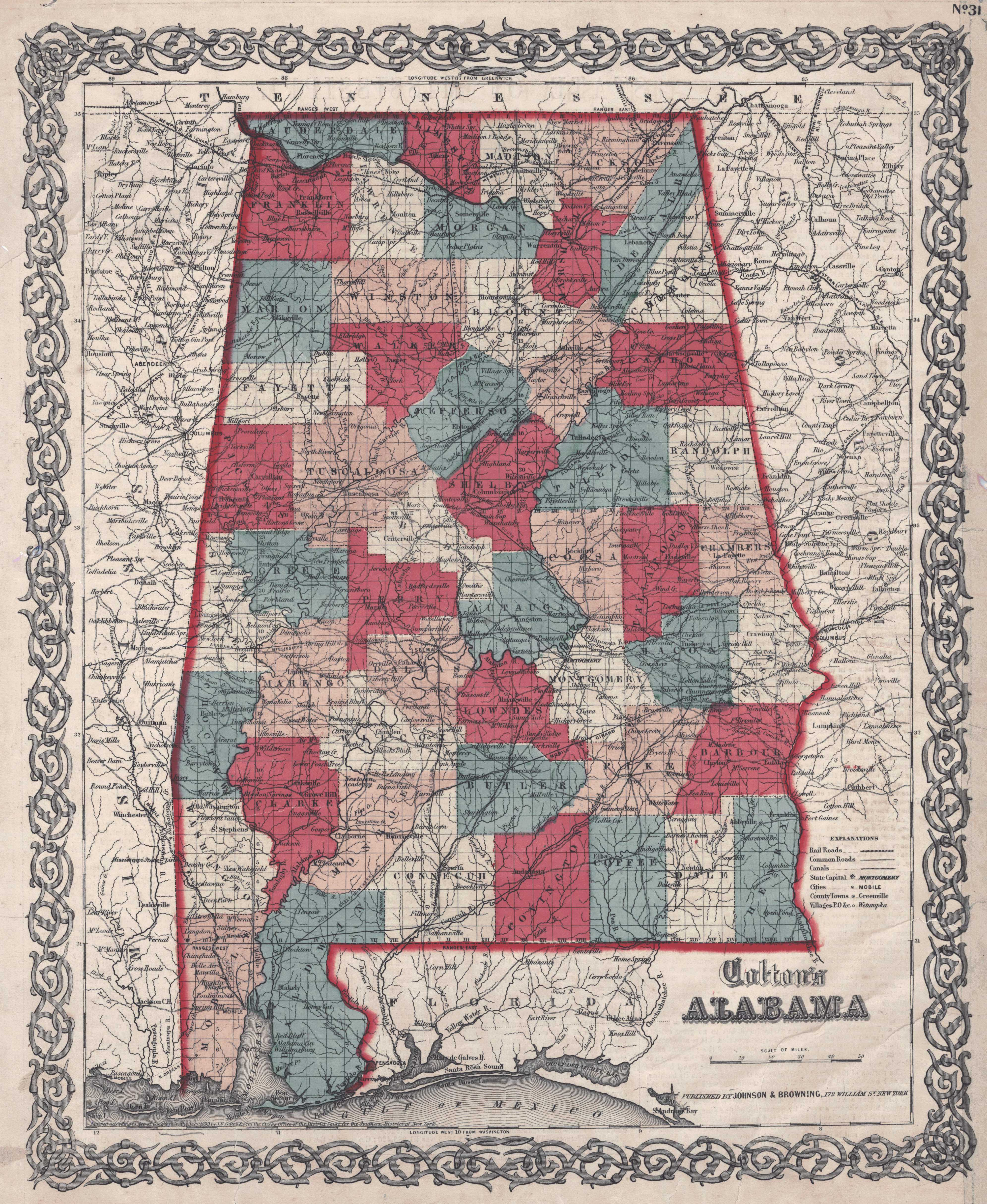 "Alabama", showing county boundaries